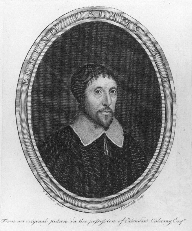 Portrait of Edmund Calamy the Elder